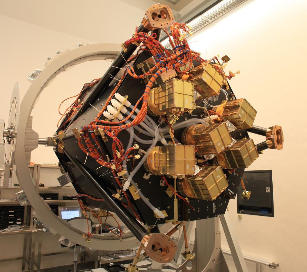 The gold blocks are the X-ray sensitive CCDs (one for each of the seven mirrors). For each detected photon, they measure the arrival time, energy (or wavelength) and position on the sky.